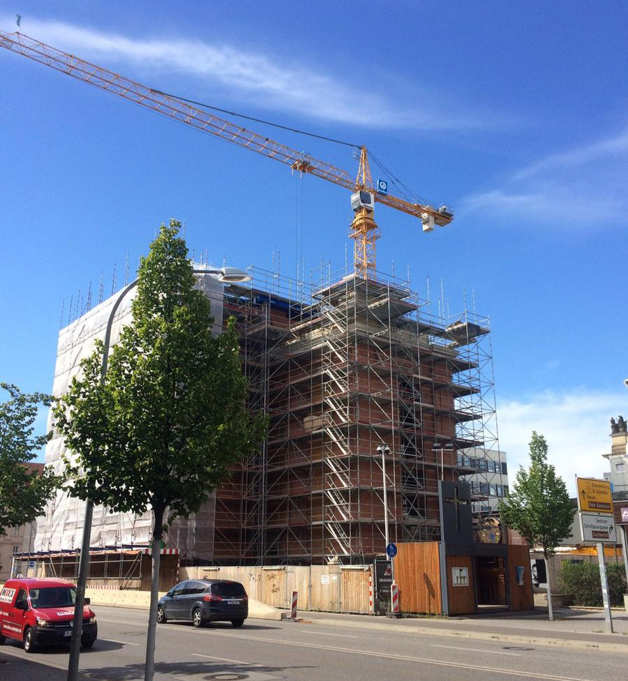 Garrison Church in Potsdam, Germany, ongoing reconstruction in August 2020.